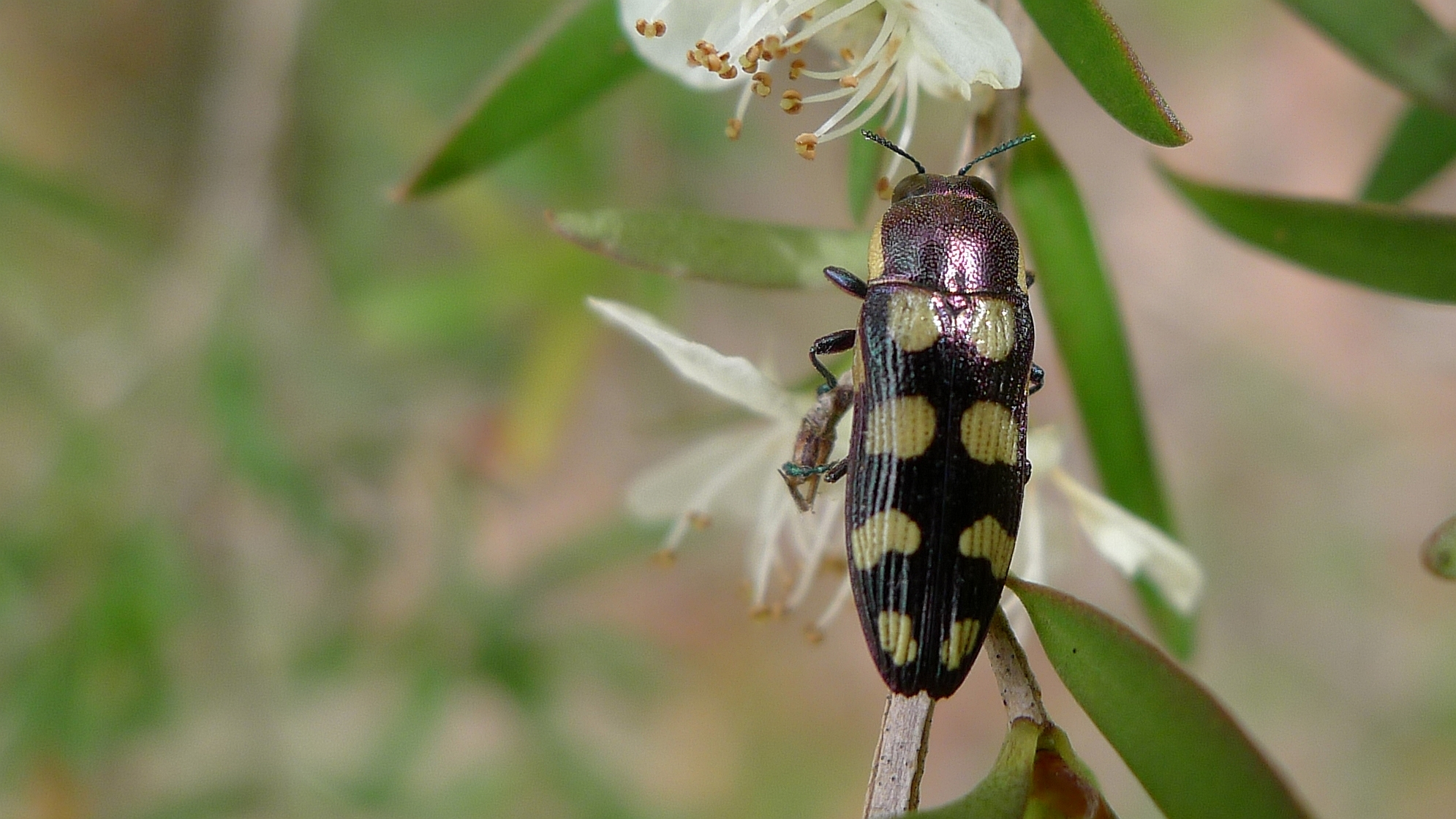 Jewel Beetle, Castiarina decemmaculata family Buprestidae, on Leptospermum polygalifolium. Royal National Park, NSW Australia, November 2013.